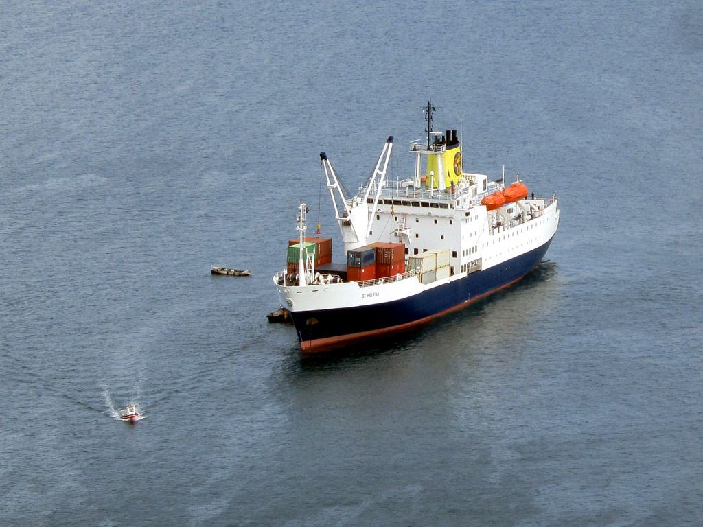 RMS St Helena